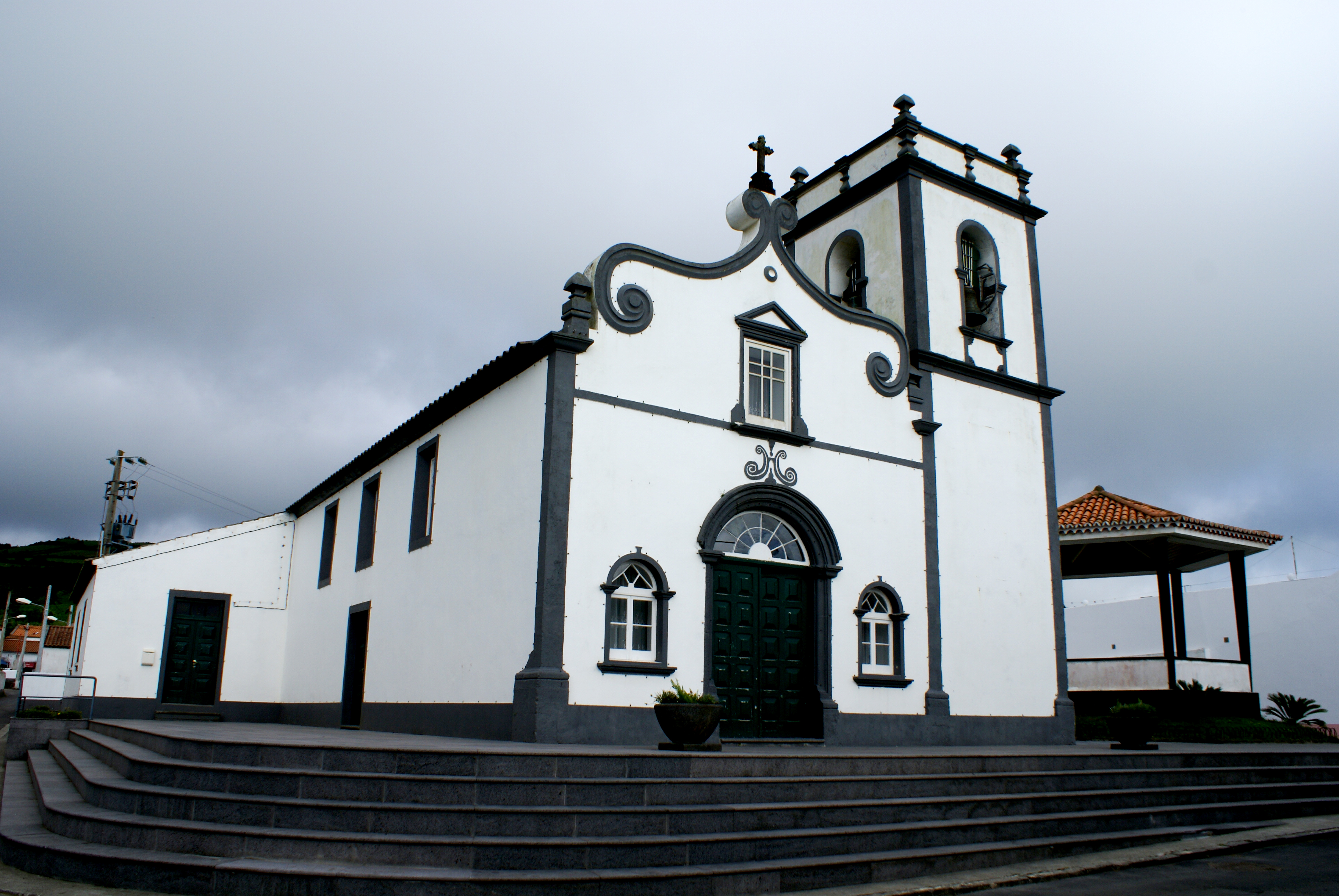 Church of Jesus, Maria e José, Várzea, Mosteiros, São Miguel (Azores), Portugal